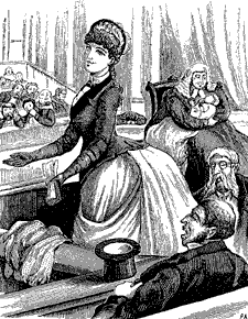 Cartoon published in the Melbourne version of Punch on 14/04/1887. The caption, missing from this picture, read: "Some foolish people imagine our ladies will neglect their family duties. Quite a mistake. 3 am. That dear good old creature, Mr Speaker, is kind enough to take the blessed infant while the Hon. Member addresses the house." She's wearing a prominent bustle, in line with 1880s fashions.